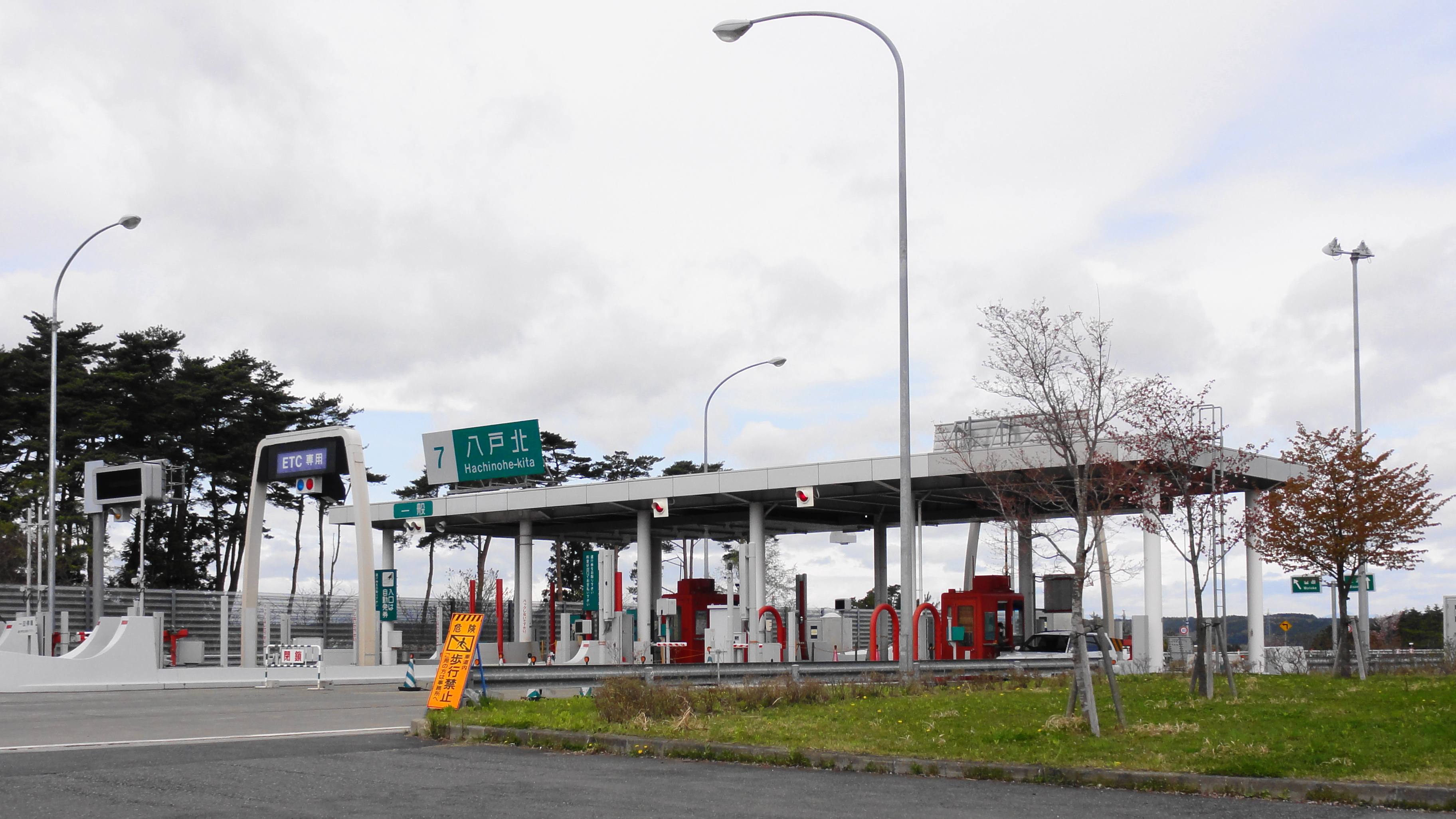 Hachinohe-kita Inter Change, Aomori Prefecture, Japan